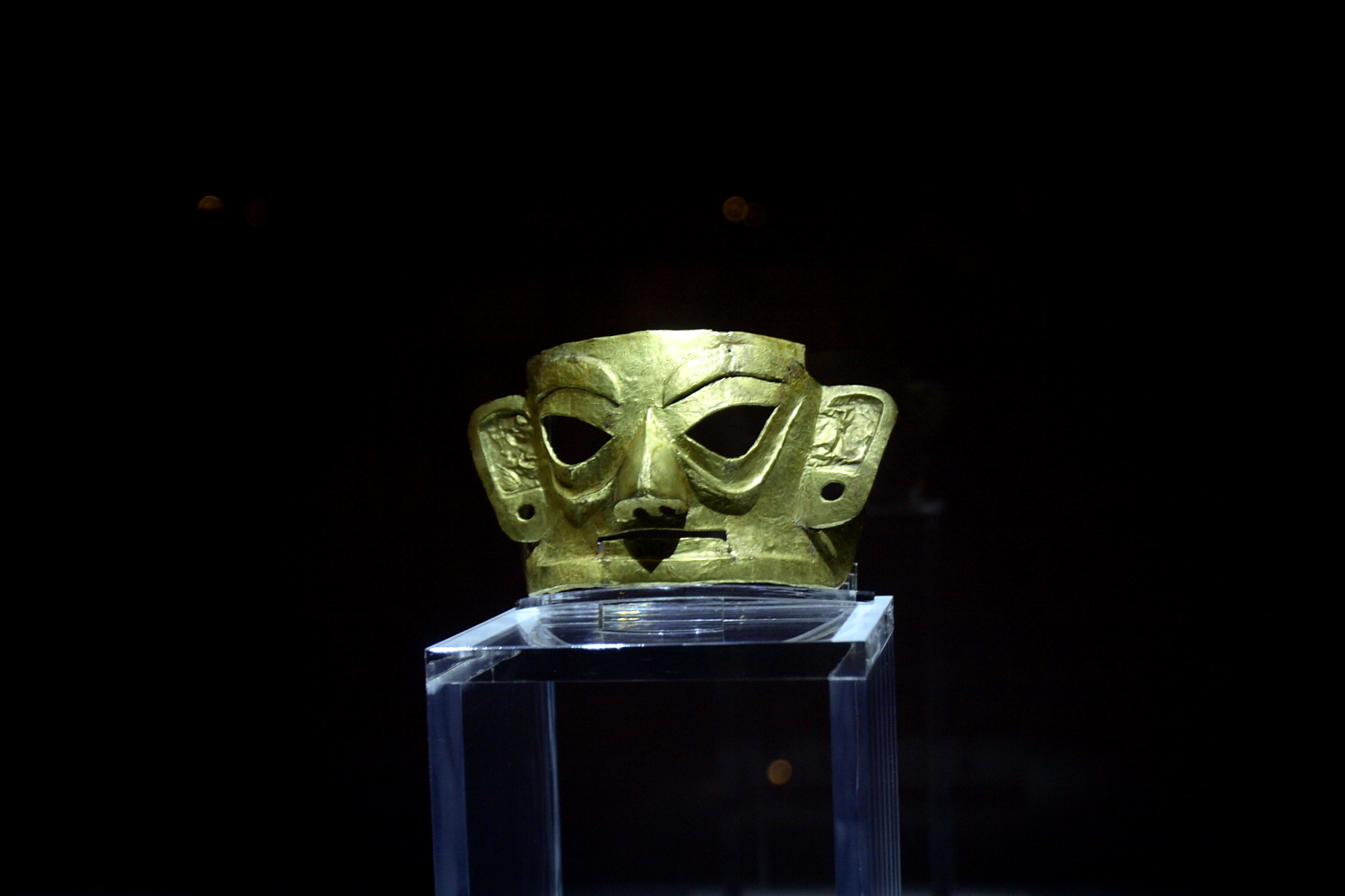 Golden Mask in Jinsha archaeological site, Chengdu China